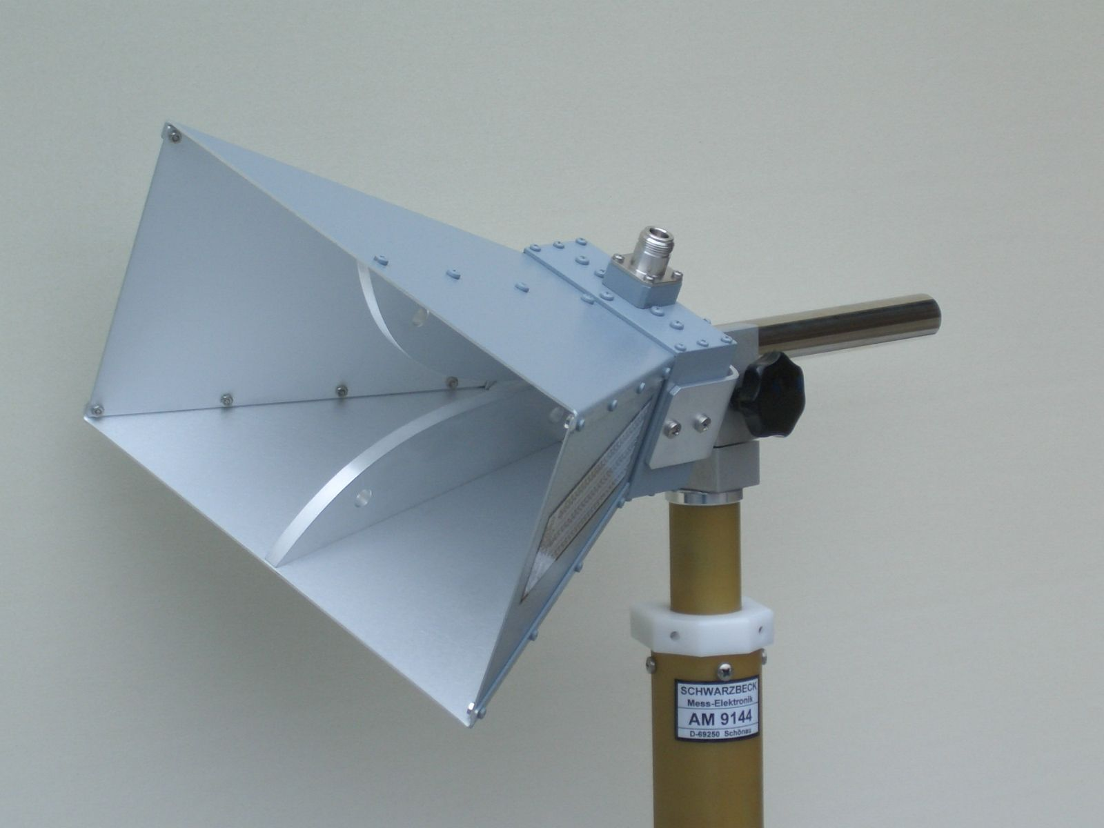 Broadband microwave horn antenna. Its bandwidth is 0,8 – 18 GHz. The coaxial cable feedline is attached to the connector visible at top. This type is called a ridged horn; the curving metal ridges or fins visible inside the mouth of the horn reduce its cutoff frequency, increasing the bandwidth.